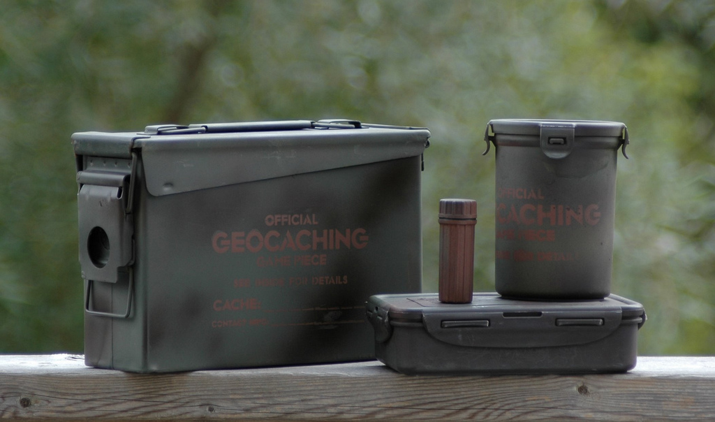 This is an assortment of various sized geocache containers. The sizes range from micro to regular.